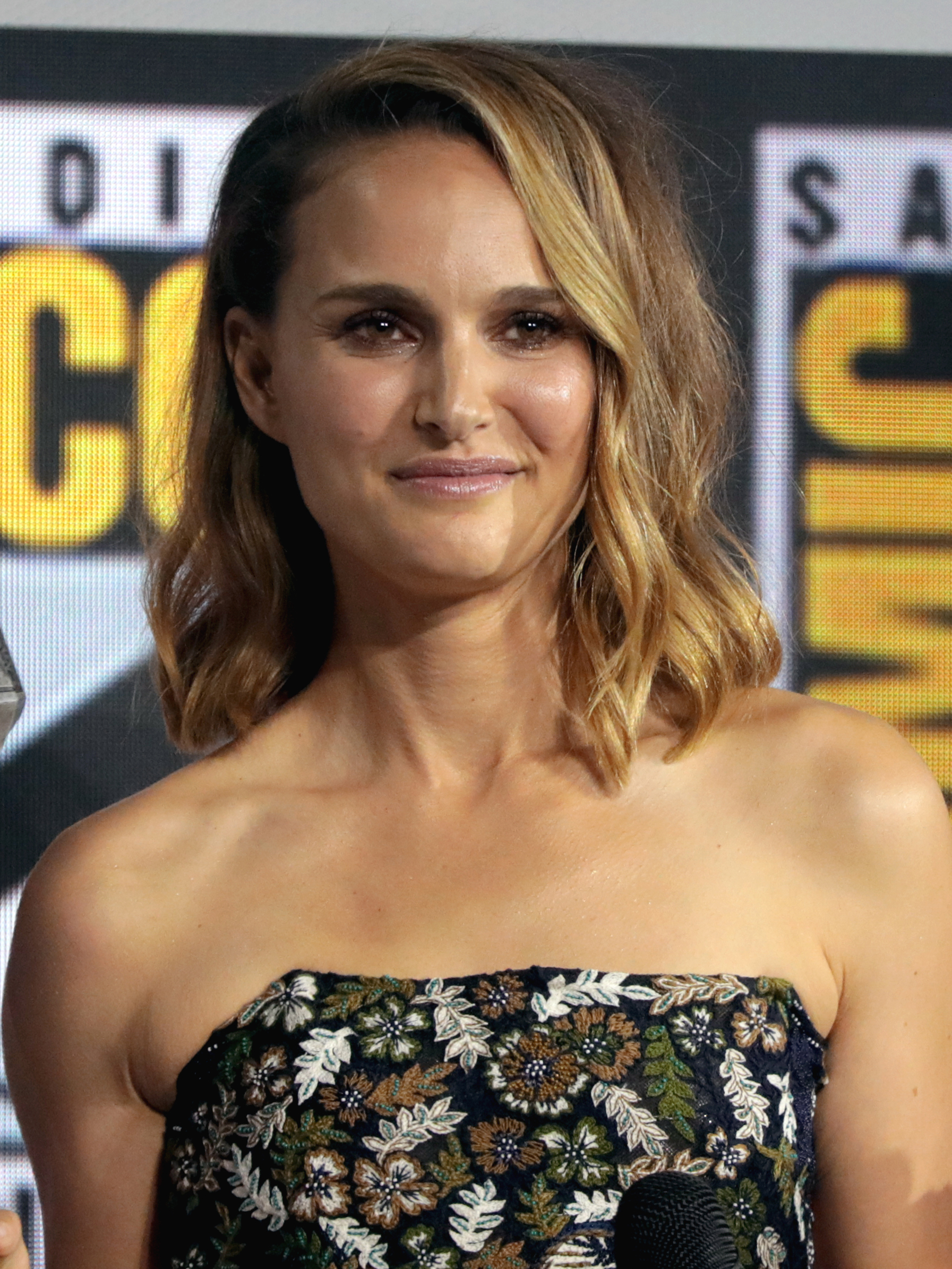 Natalie Portman speaking at the 2019 San Diego Comic-Con International in San Diego, California.